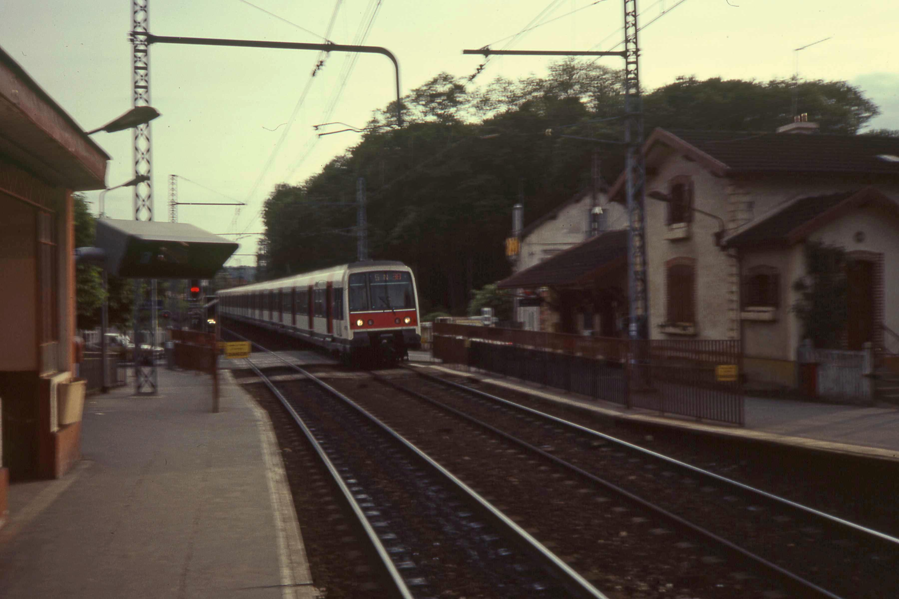 Modern stock on the RER B line in 1982